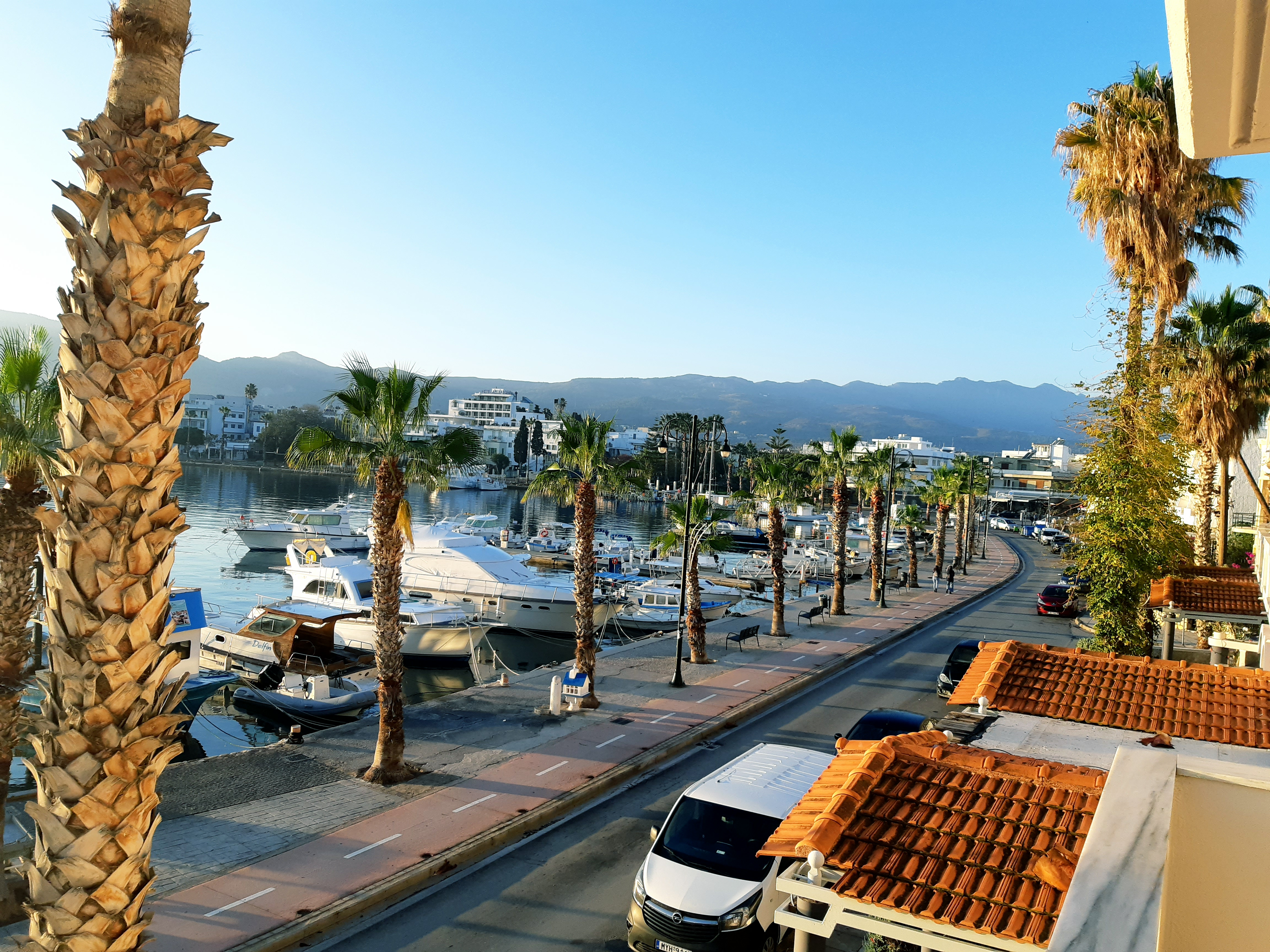 Port of Kos (Mandraki) on the Greek island of Kos.